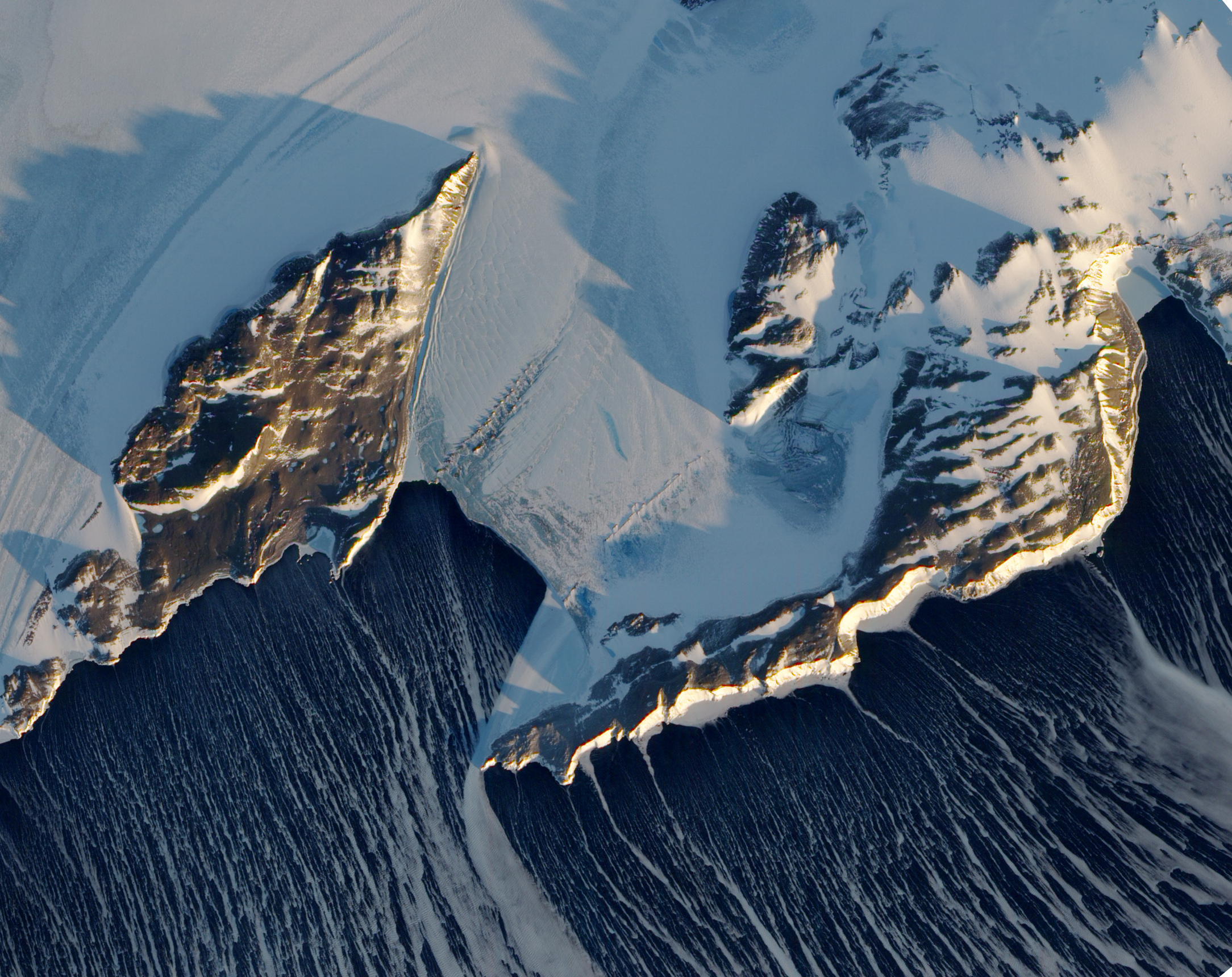 Just days away from the beginning of the Southern Hemisphere’s spring, Antarctica’s Inexpressible Island and the Northern Foothills Mountains were illuminated by a glimmer of sunlight from a low angle when the Advanced Land Imager (ALI) on NASA’s Earth Observing-1 (EO-1) satellite captured this image on September 16, 2009. The seaward slopes of the mountains are gleaming white, and they cast long shadows inland over the Nansen Ice Sheet. Terra Nova Bay appears in shadow. The scene provides at least two indications of the bay’s persistent and fierce katabatic winds—downslope winds that blow from the interior of the ice sheet toward the coast. One is the windswept ground in the mountainous terrain. In many places, there is a pattern of bare rock and snow drifts that suggests the winds have scoured snow from upwind (inland-facing) slopes and deposited it on the lee sides. The second sign of the strong winds appears in the open waters of Terra Nova Bay. Parallel white streamers are composed of newly formed sea ice, probably frazil—crystals just millimeters wide—and congealed frazil, called “grease ice” because it resembles an oil slick on the water. The ice is continually pushed out to sea by the strong offshore winds, leaving a pocket of open water, a polynya.